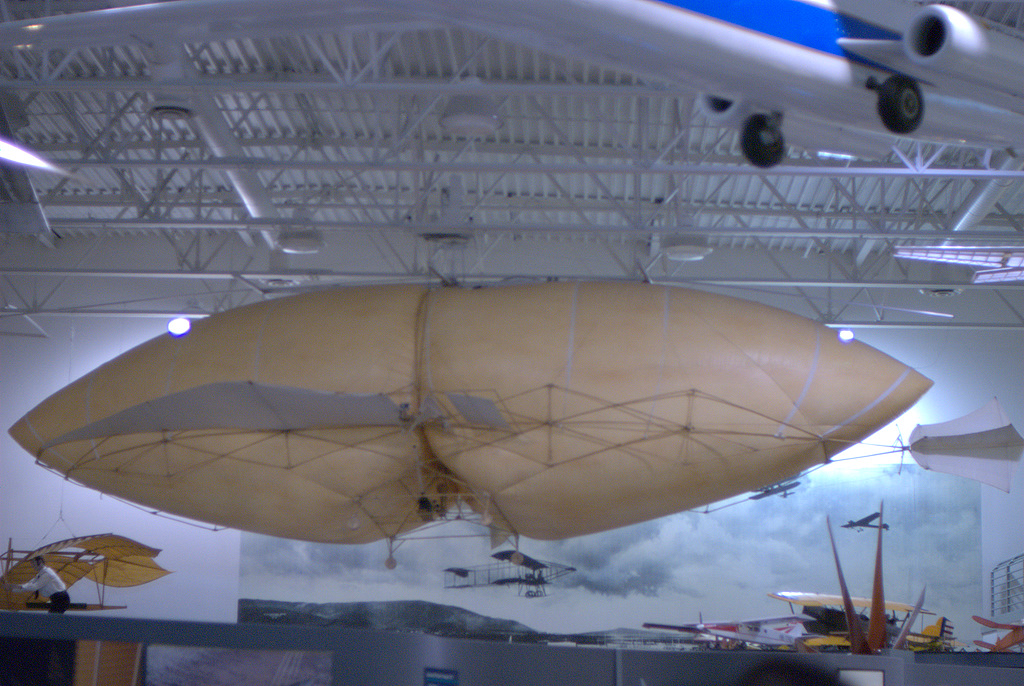 replica of Frederick Marriott's Hermes Avitor Jr[1]